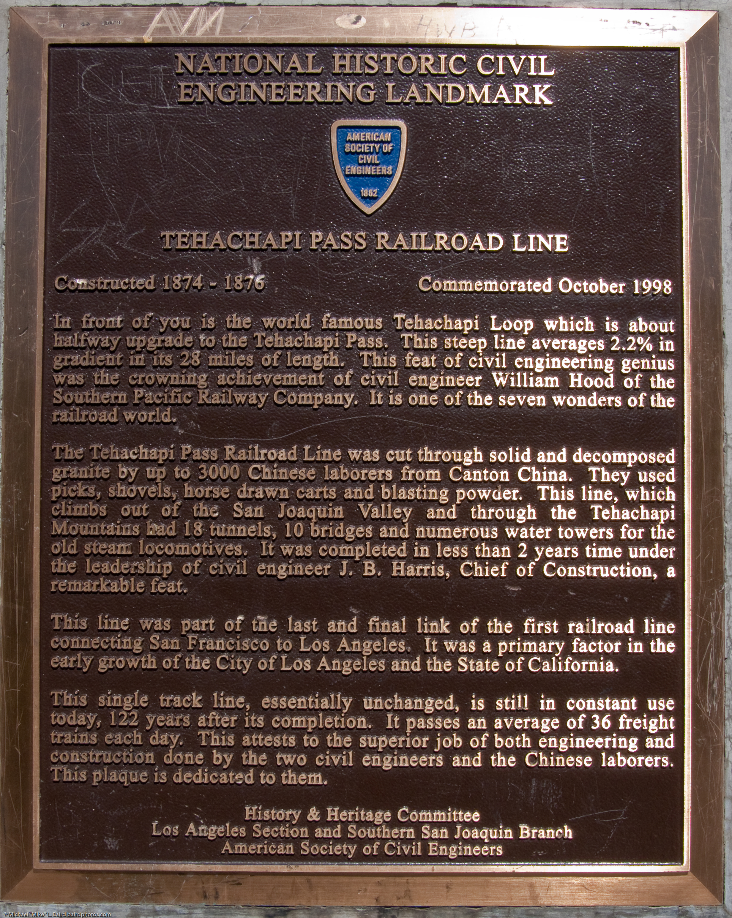 National Historic Civil Engineering Landmark signage. Tehachapi Loop, train overlook. California.